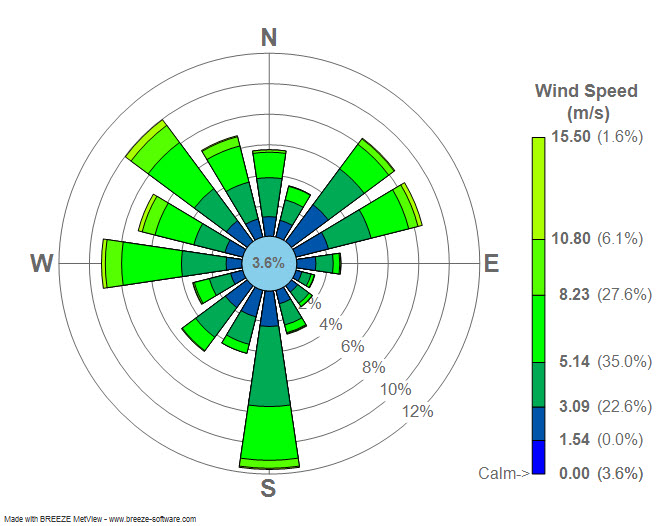 Wind rose plot, Station #14732, LaGuardia Airport, New York, New York